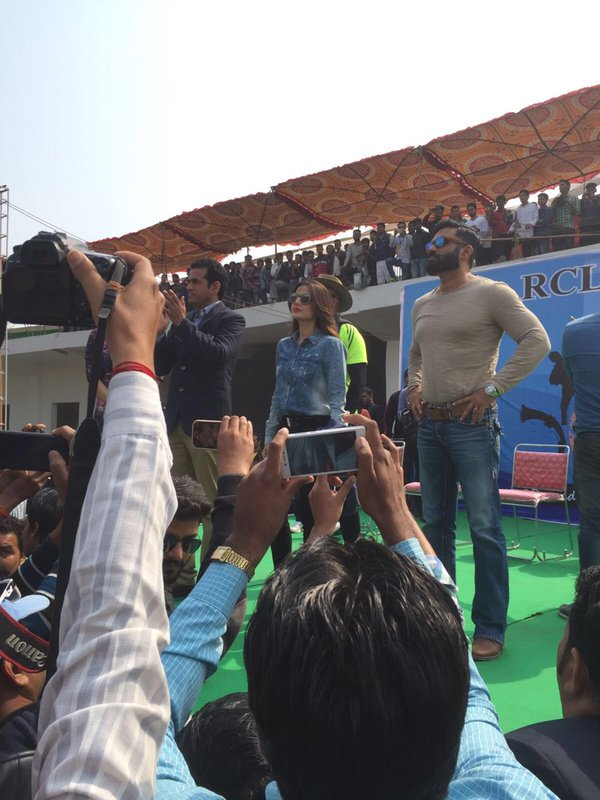 Sunil Shetty and Ameesha Patel